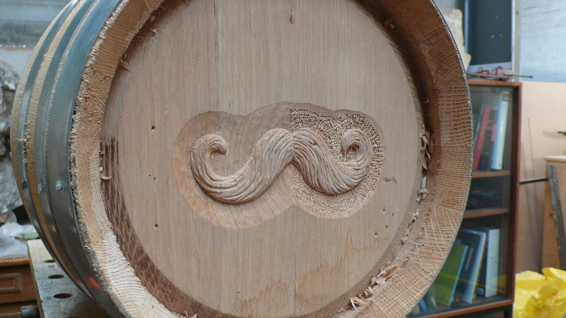 This is an image of a carved wooden cask donated from the Kings County distillery to the London Distillery Company. The cask was then carved by carpenter Robert Randall for the limited edition 109's release for Movember UK, 2012.